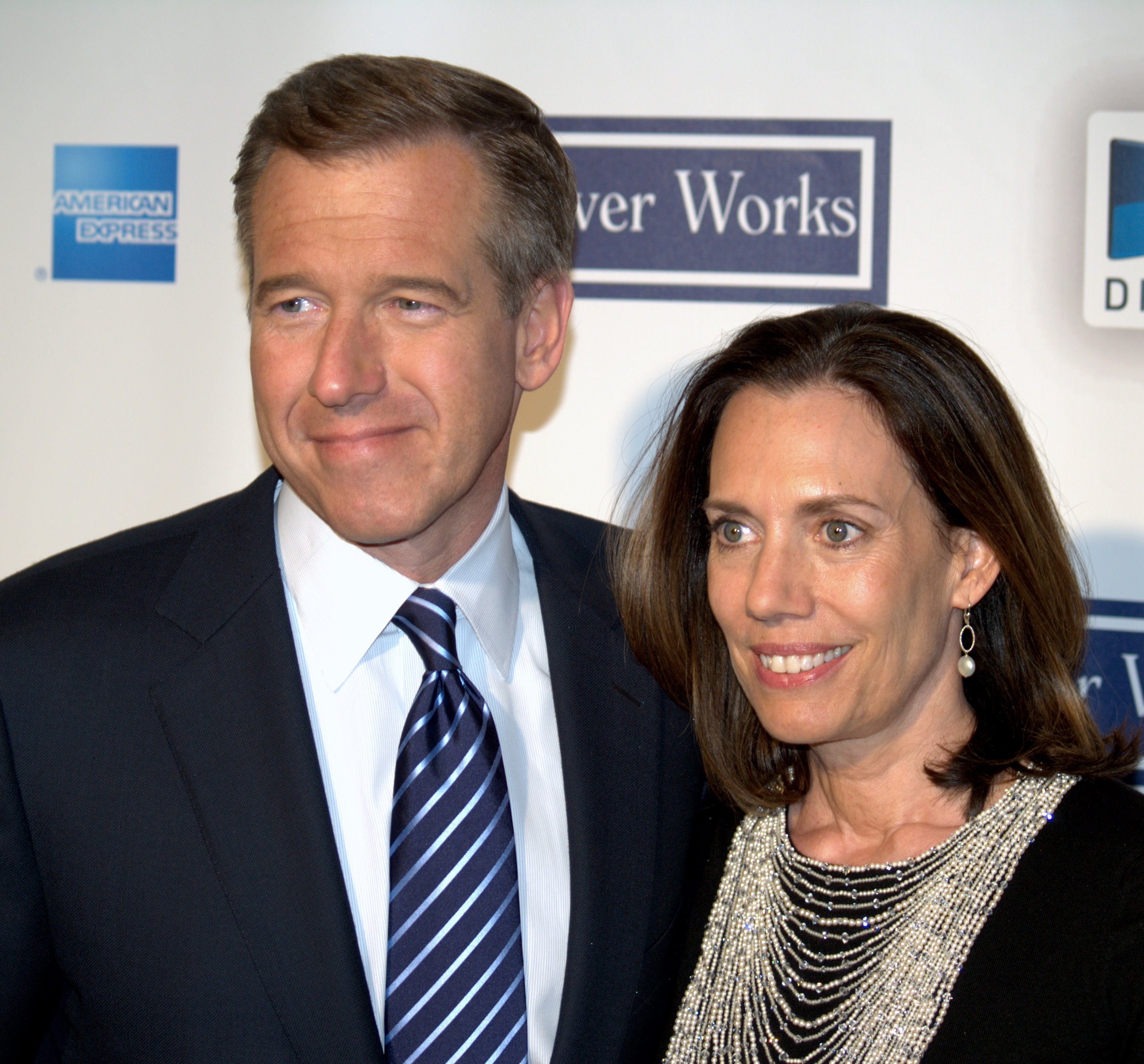 Brian Williams and his wife Jane Williams at the 2009 Tribeca Film Festival premiere of Woody Allen's film Whatever Works.